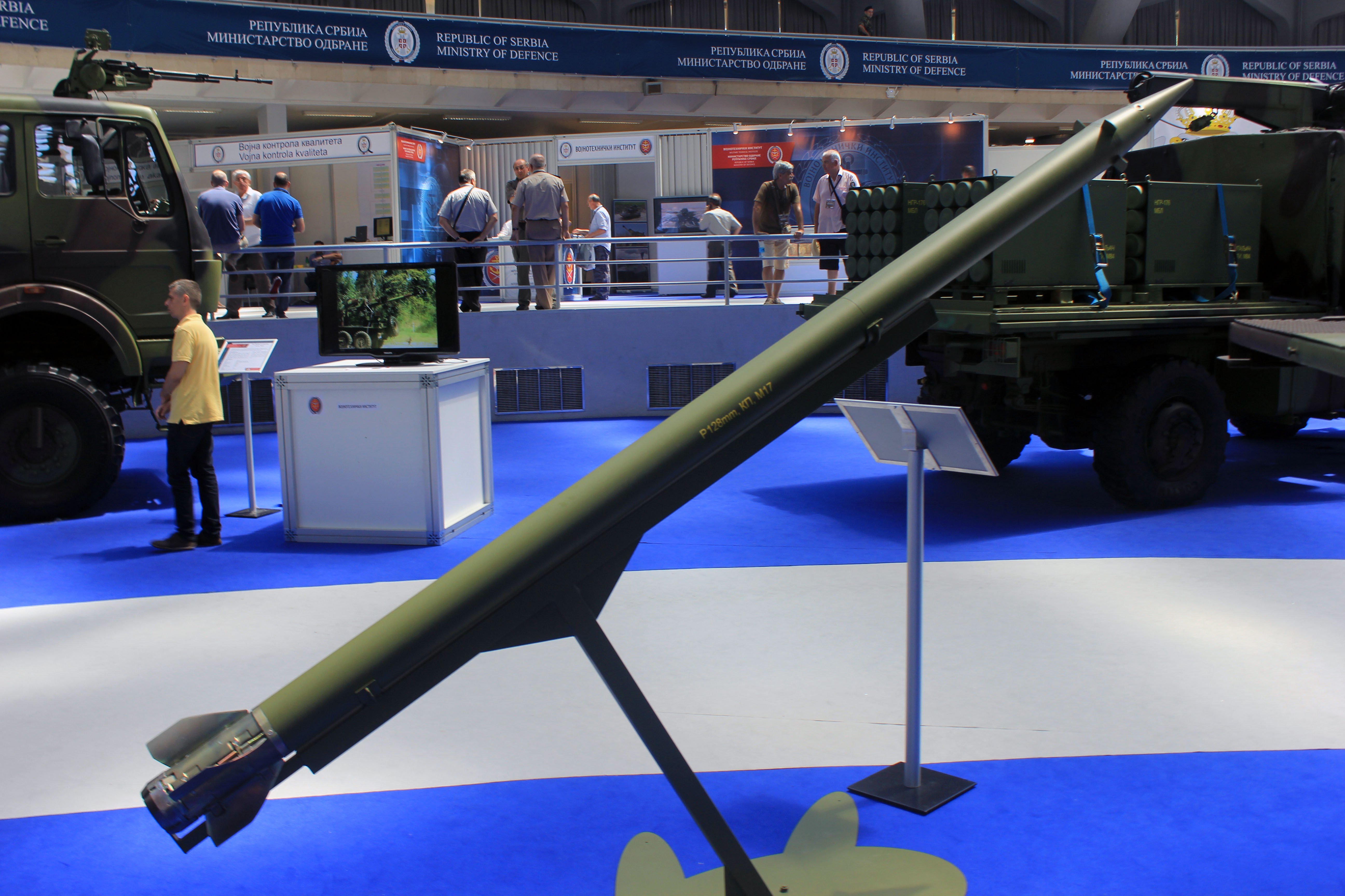 Modernized M-77 128mm rocket on engine on display at Partner 2017 military fair.